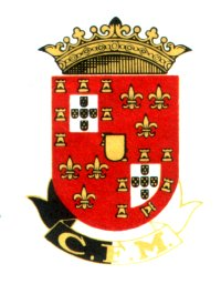 Arms of Dom António Luiz de Menezes, 1st Marquis of Marialva, as shown in the Cantanhede's Clube de Futebol "Os Marialvas" insignia.